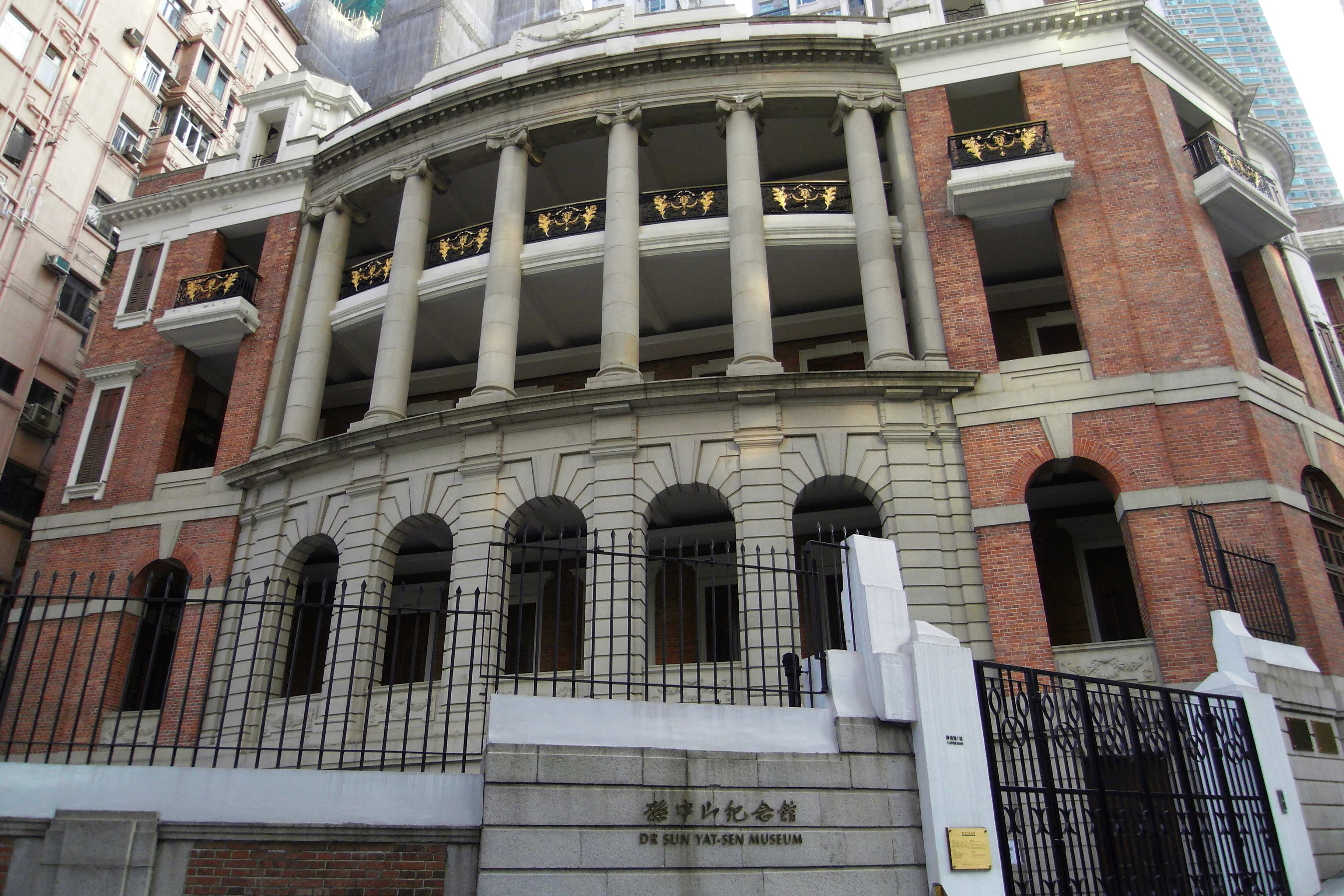 Dr. Sun Yat-sen Museum, 7 Castle Road, Mid-levels, Hong Kong